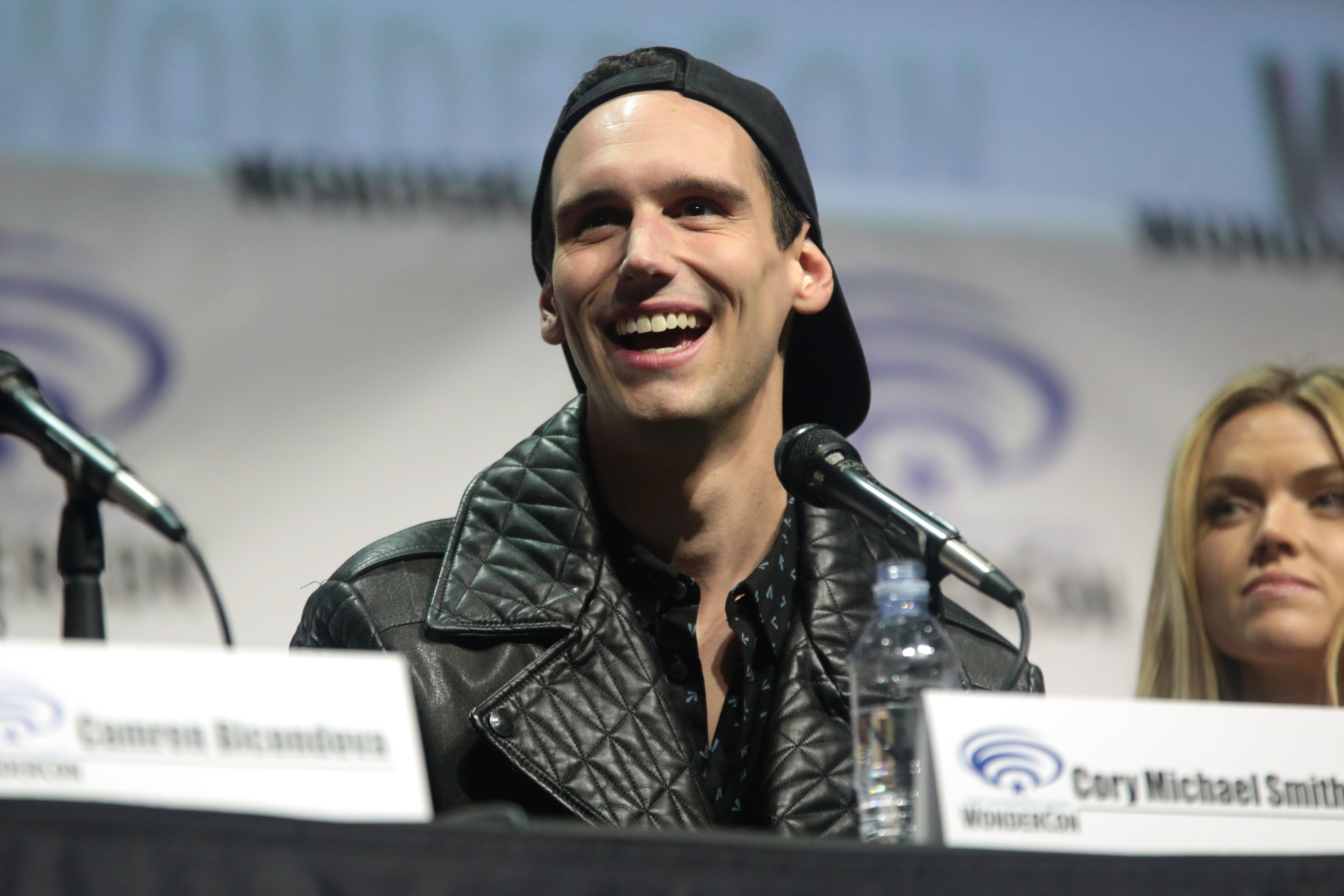 Cory Michael Smith speaking at the 2017 WonderCon, for "Gotham", at the Anaheim Convention Center in Anaheim, California.